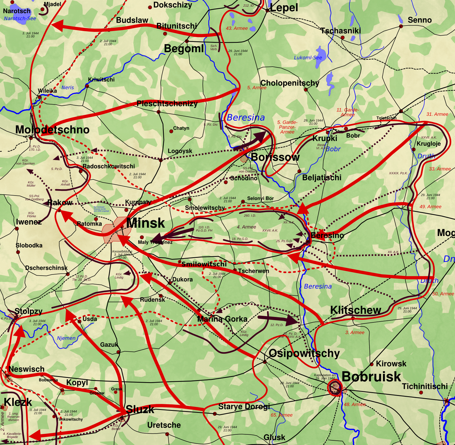 Operation Bagration: Pocket of Minsk, Development June 29 1944, 1000 PM - July 03 1944, 1000 PM